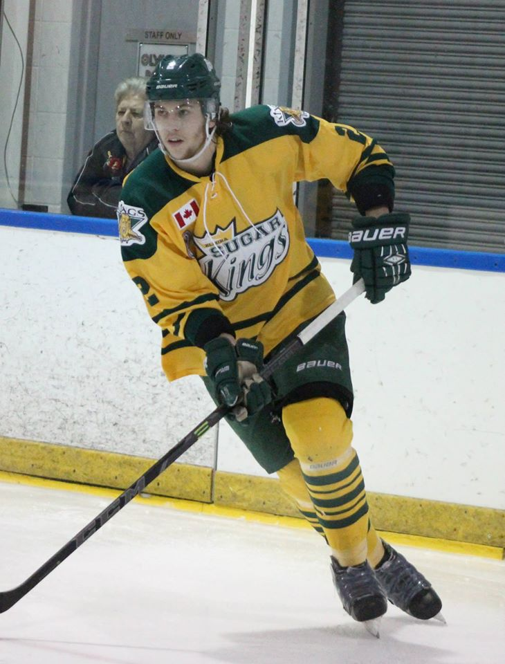 This photo was taken by Devan Mighton during the 2014-15 GOJHL season.